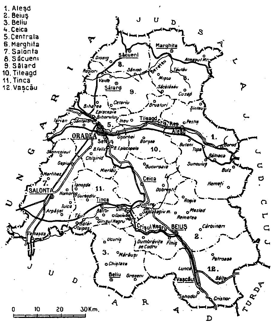 Map of Bihor interwar county, Kingdom of Romania (1938).